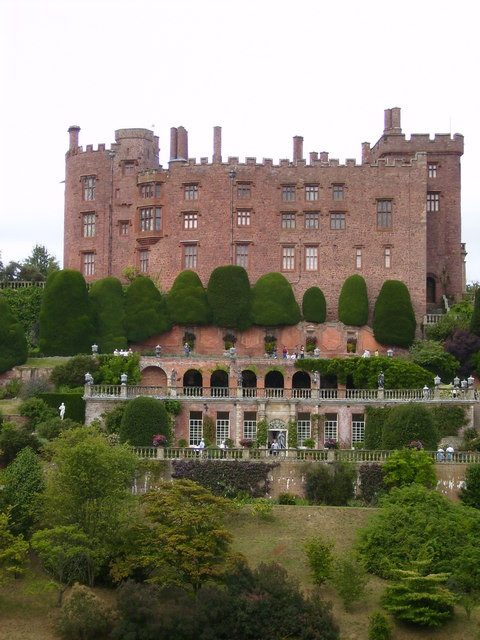 Powis Castle viewed from its gardens.